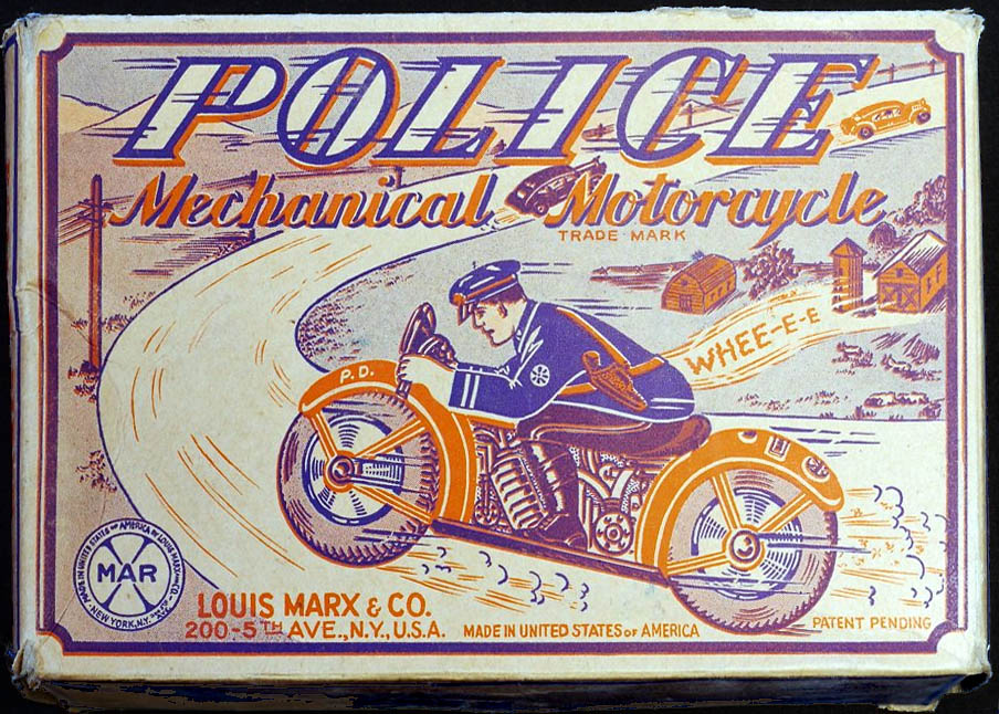 Marx Police USA 1950's